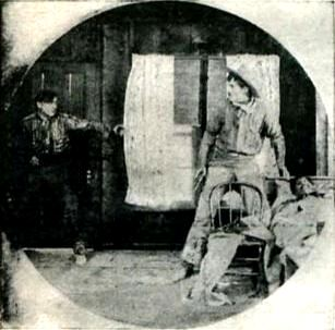 Still from the American silent western film Sundown Slim (1920), part of a photo-play on page 33 of the January 1921 Film Fun. Still 3: "Fadaway (Charles Le Moyne), a bad cowboy, starts an unprofitable argument with Sundown (Harry Carey)."